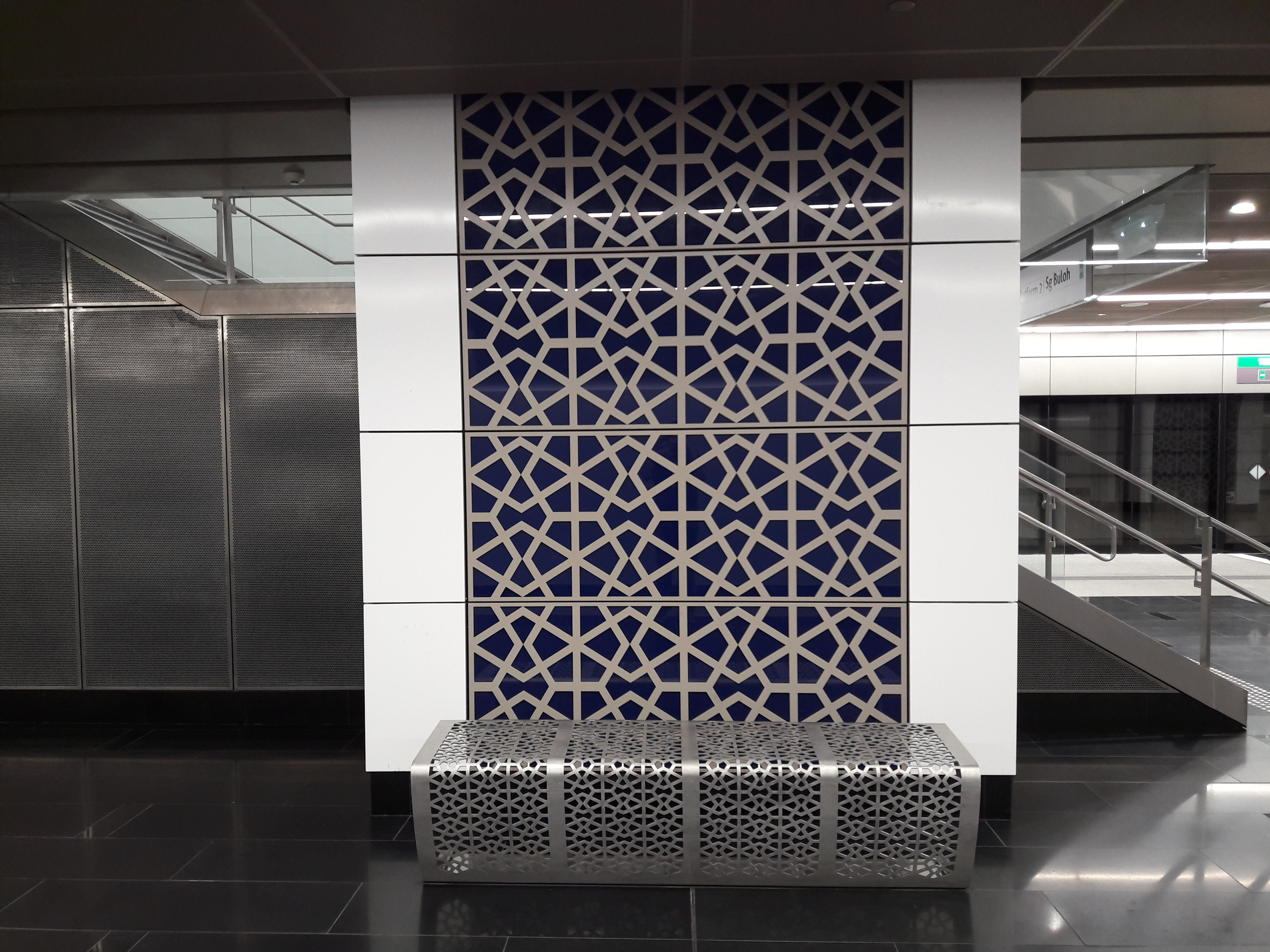 Islamic motifs at the Tun Razak Exchange MRT station